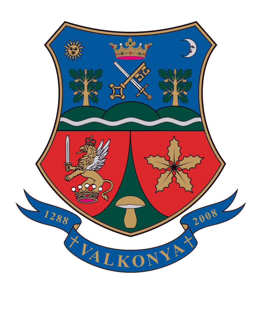 Coat of arms of Letenye, Hungary